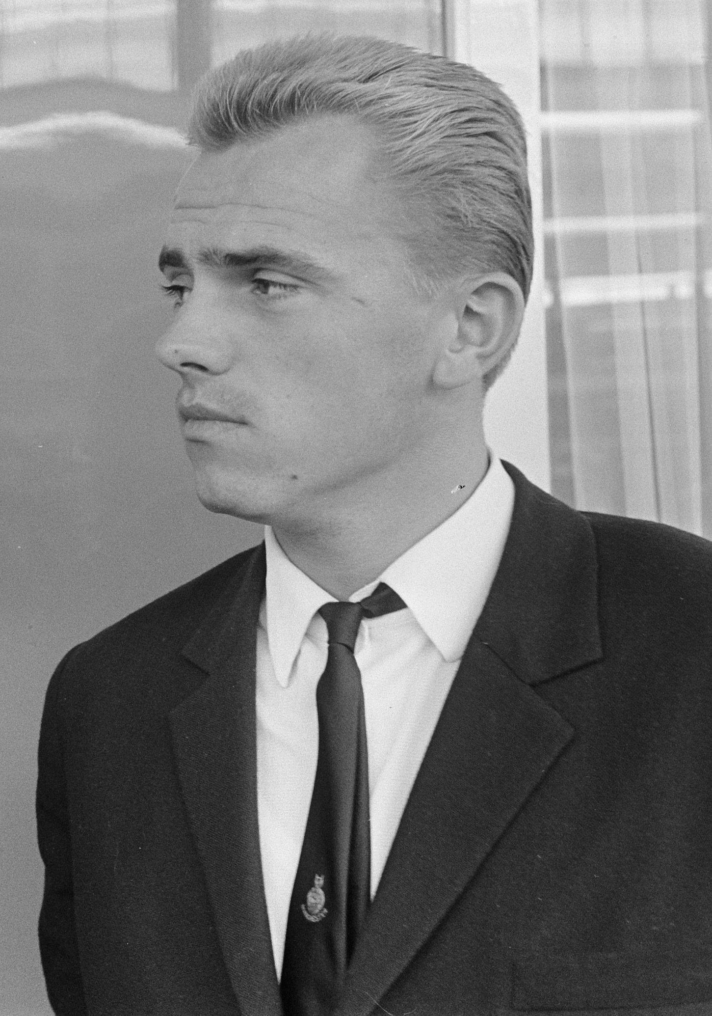 Kálmán Mészöly Hungarian football (soccer) player